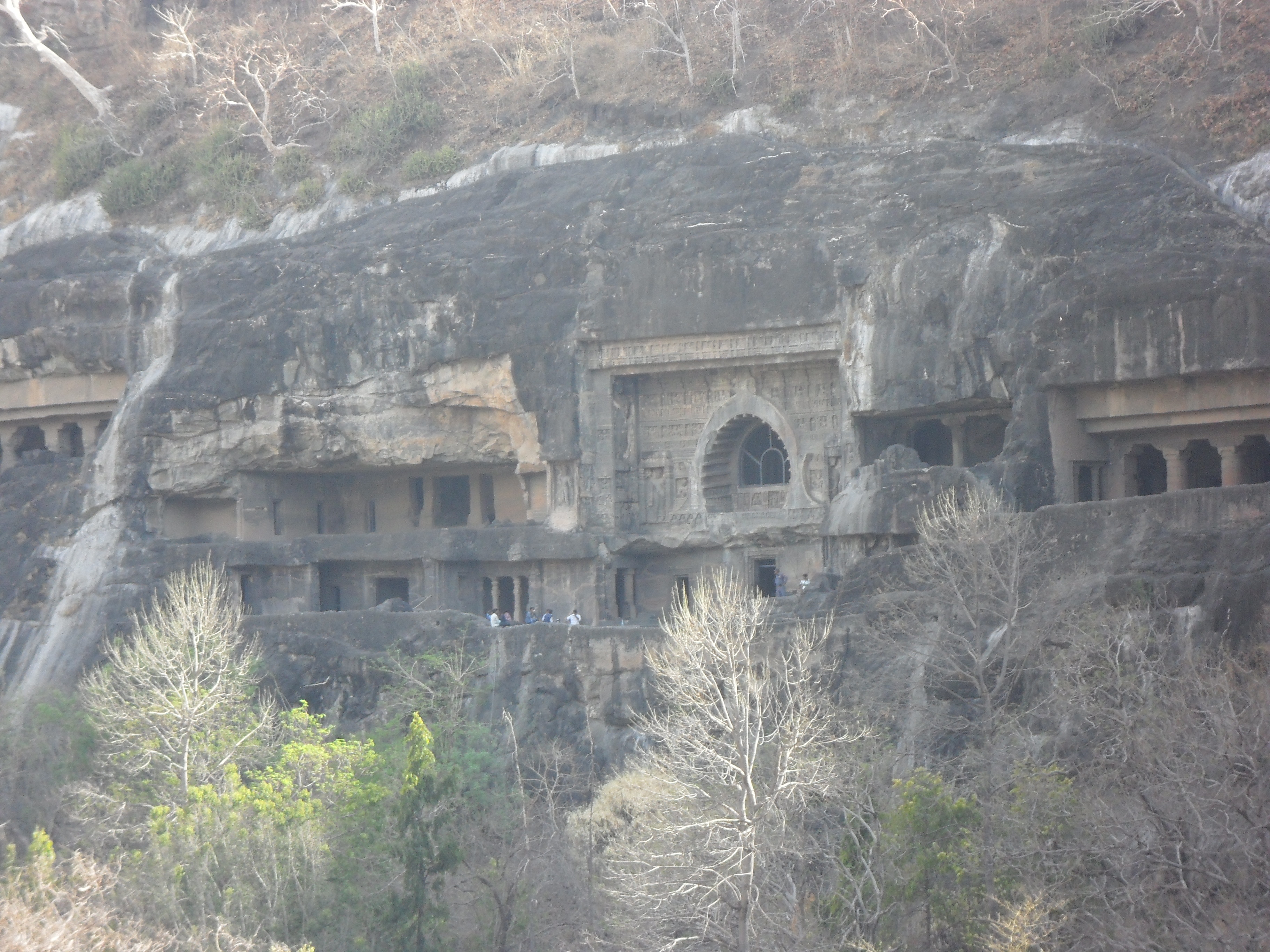 Cave 27 facade in centre with large window, Ajanta Caves in Maharastra,India